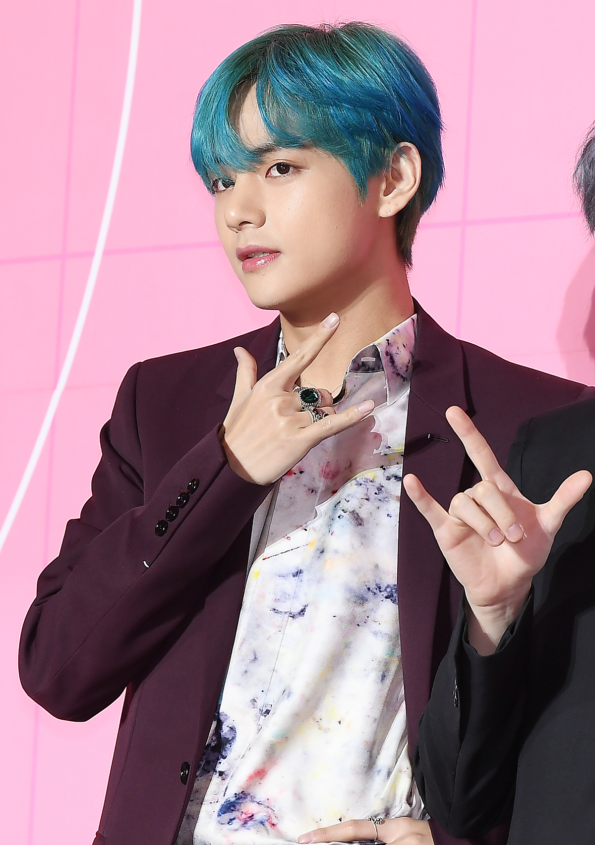 V at the Map of the Soul: Persona press conference on 17 April 2019